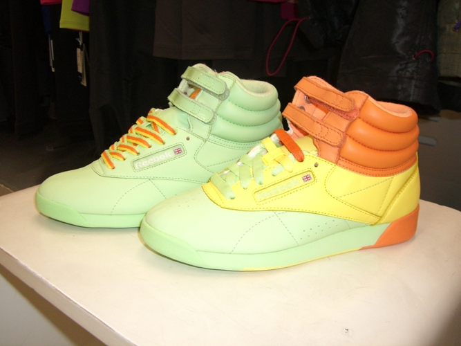 Reebok FREESTYLE 2009